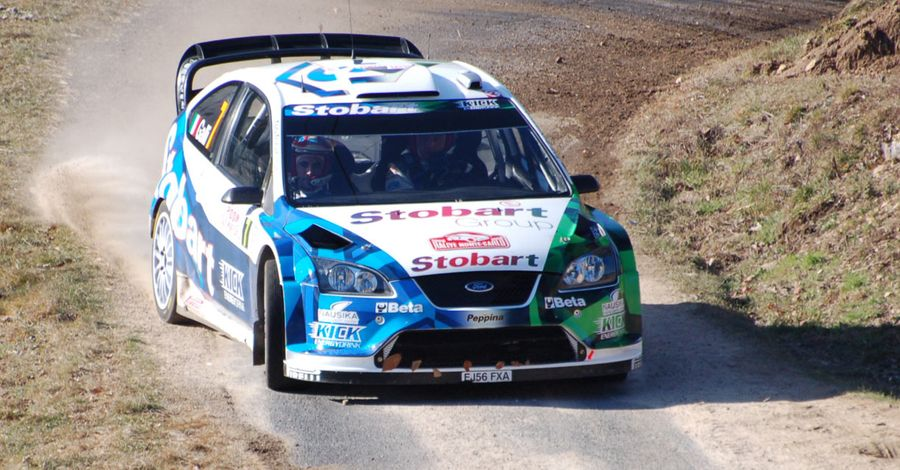 Gigi Galli in Monte-Carlo 2008